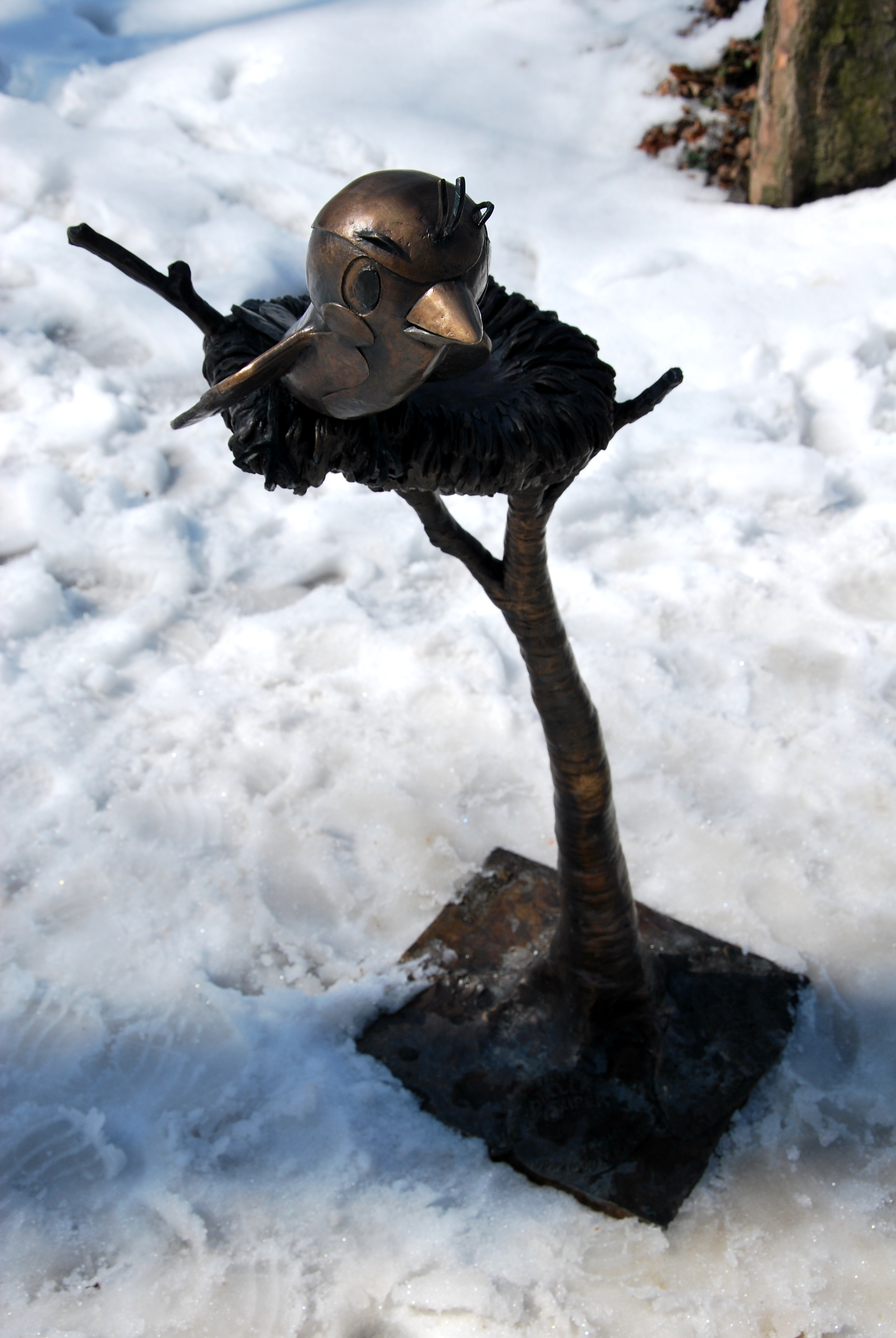 Ćwirek Sparrow sculpture, Łódź Źródliska Park